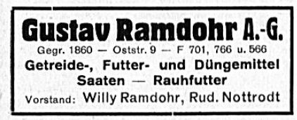 Adressbuch Aschersleben 1926, own Scan. Advertisement of Gustav Ramdohr AG